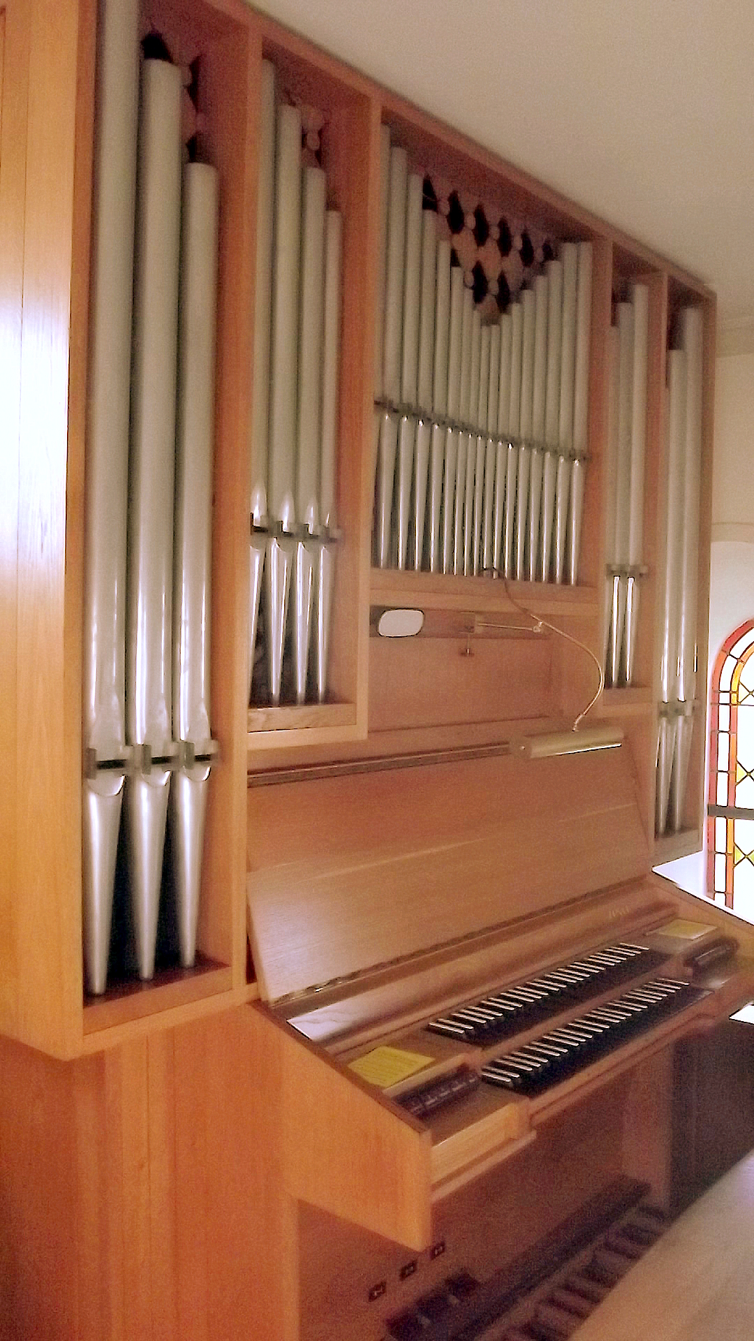 Interior of the protestant church in Dörrenbach, Saarland, Germany